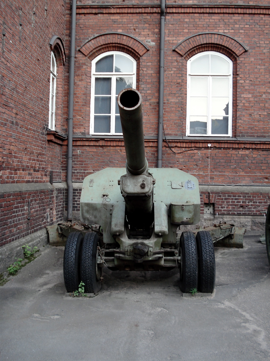 Soviet 152mm mm M-10 Model 1938 howitzer, displayed in Helsinki Military Museum. Photo taken on July 4, 2006. Source: Photo by me, User:Balcer.